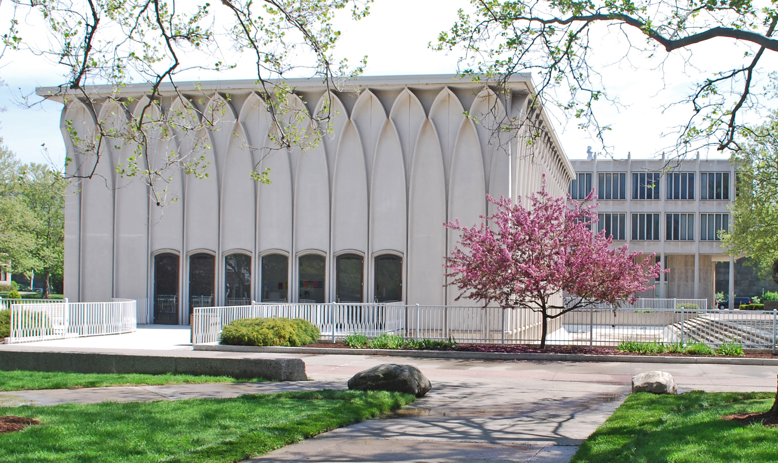 DeRoy Auditorium — on the Wayne State University campus, Midtown Detroit, Michigan. 1964 Modernist architecture by Minoru Yamasaki. On the National Register of Historic Places.